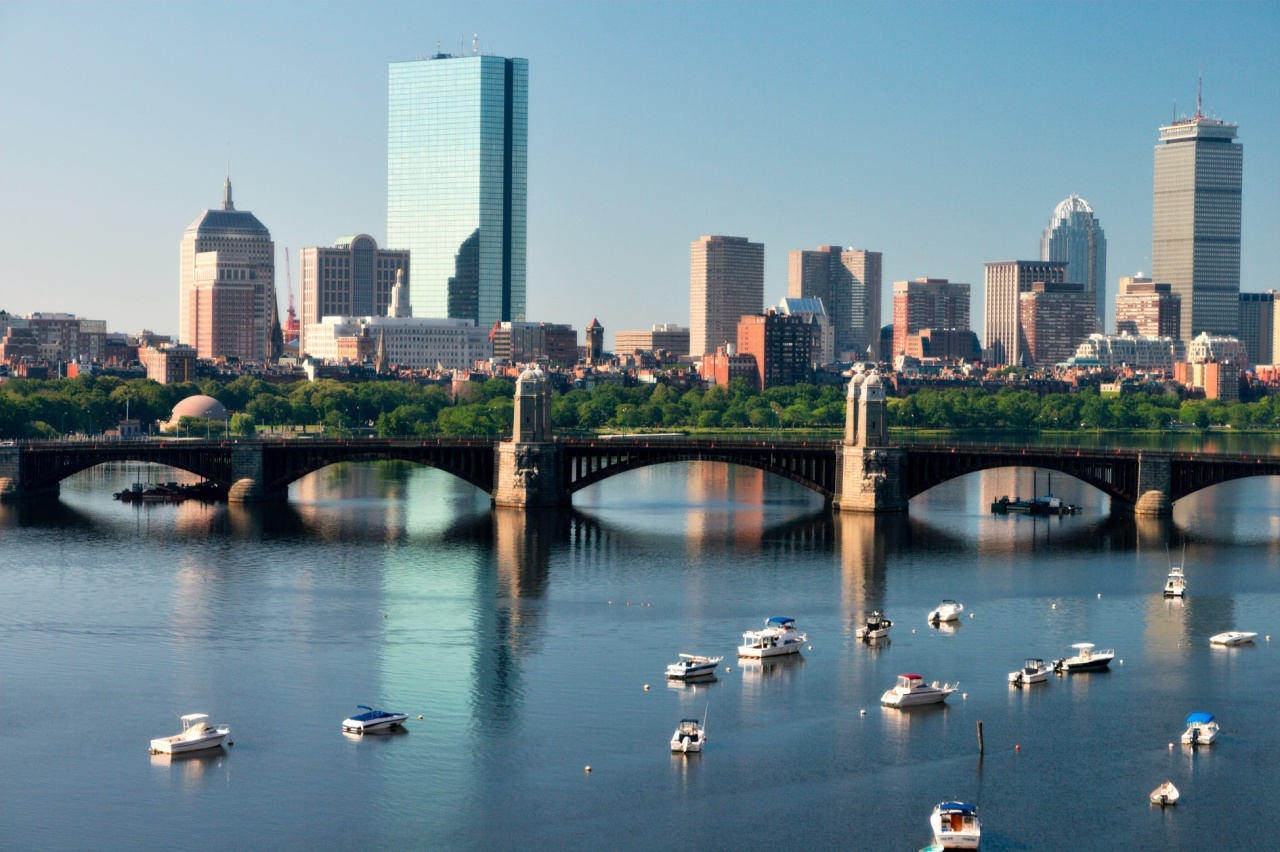 Depicts the skyline of the Copley Square area of Boston as seen from across the Charles River.